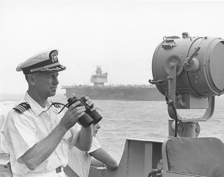 USS Bainbridge (DLGN-25) ship's Executive Officer, Commander William A. Spencer, scans the shoreline as Task Force ONE enters port at Karachi, Pakistan, during Operation "Sea Orbit", August 1962. USS Enterprise (CVAN-65) is in the distance.